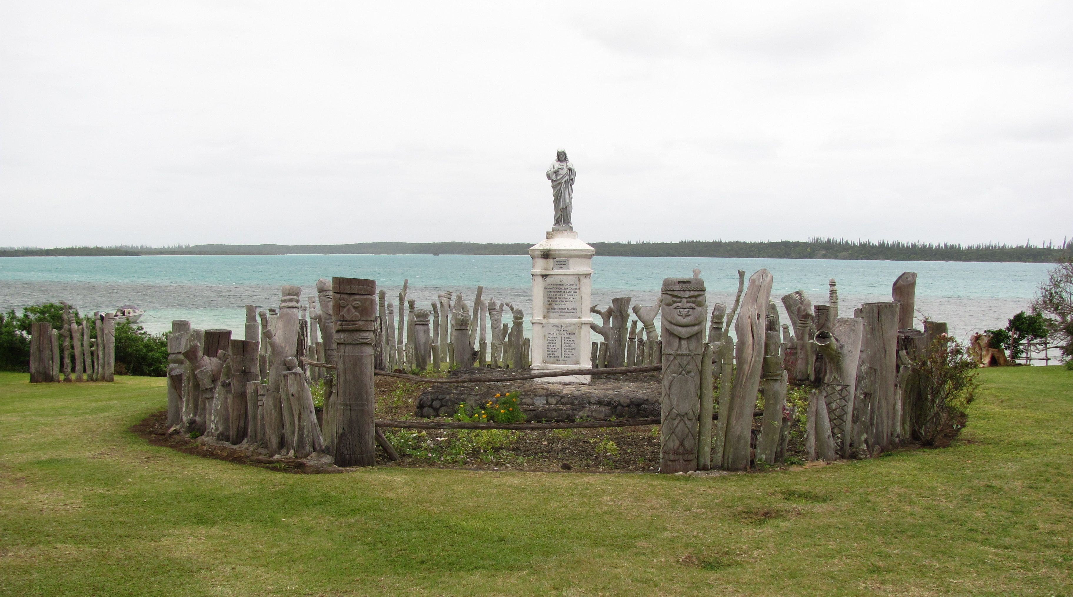 Saint Maurice Bay, Vao, Ile des pins, New Caledonia